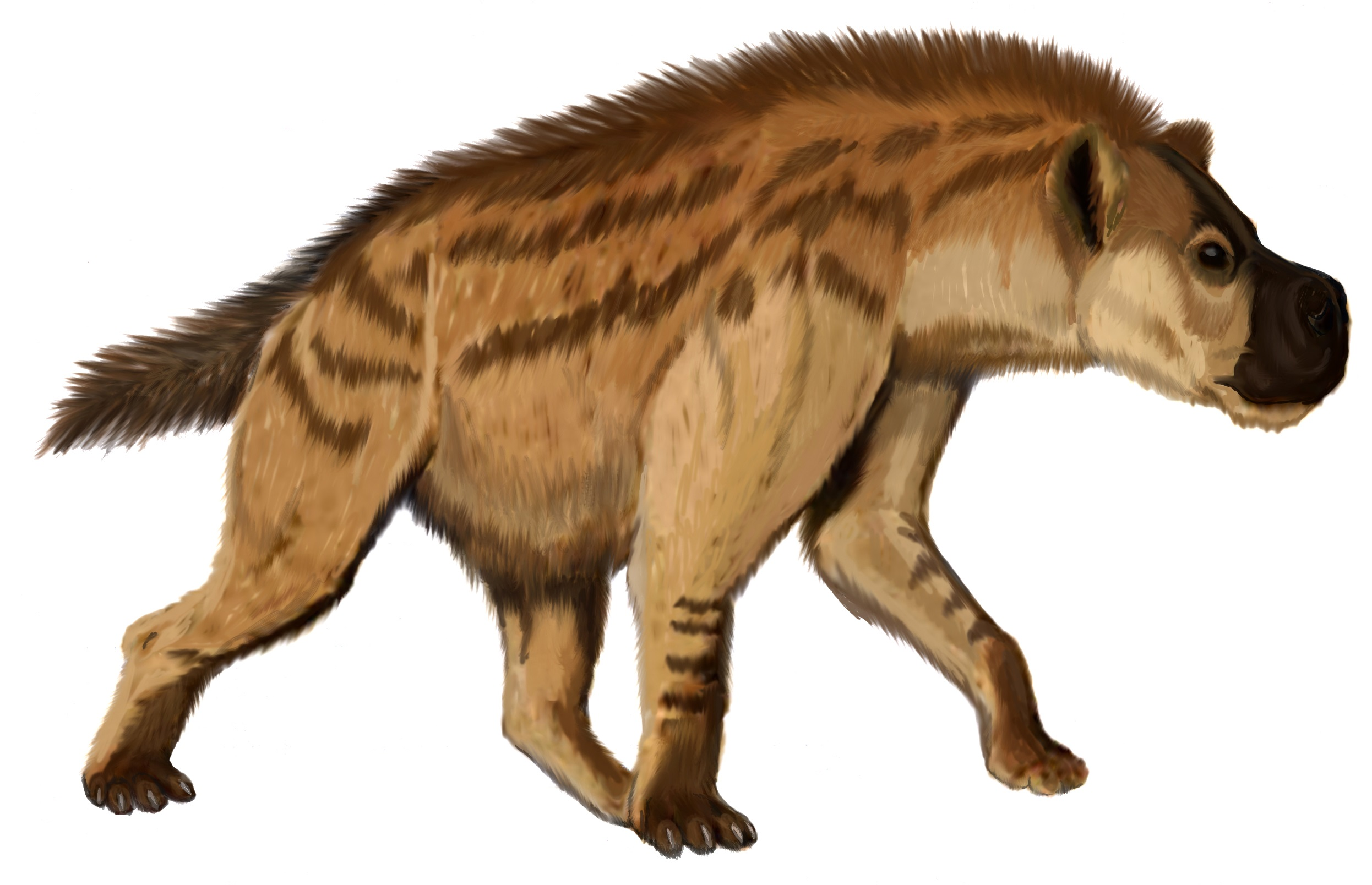 Dinocrocuta gigantea - giant percrocutid from Miocene of China.